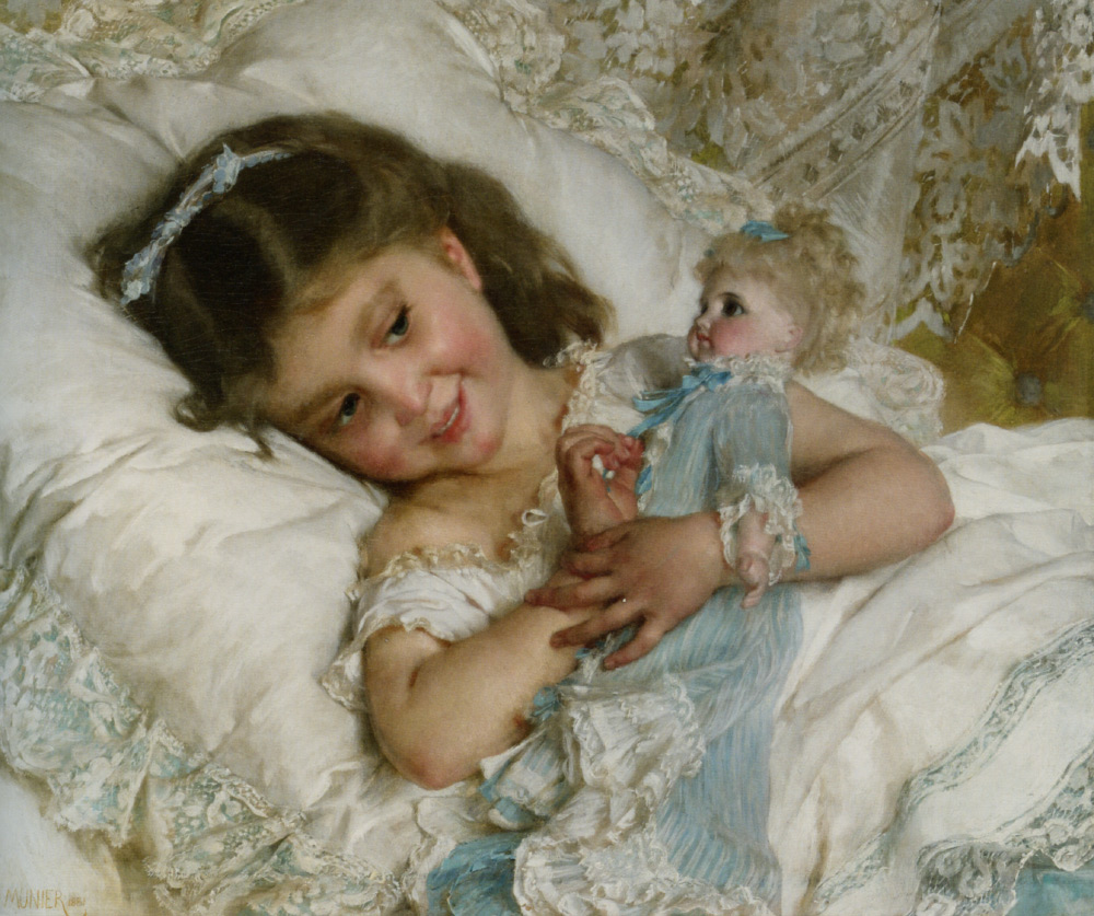 Girl with doll; Oil on canvas 20 1/4 x 24 1/2 inches Signed and dated 1881 (l.l.)